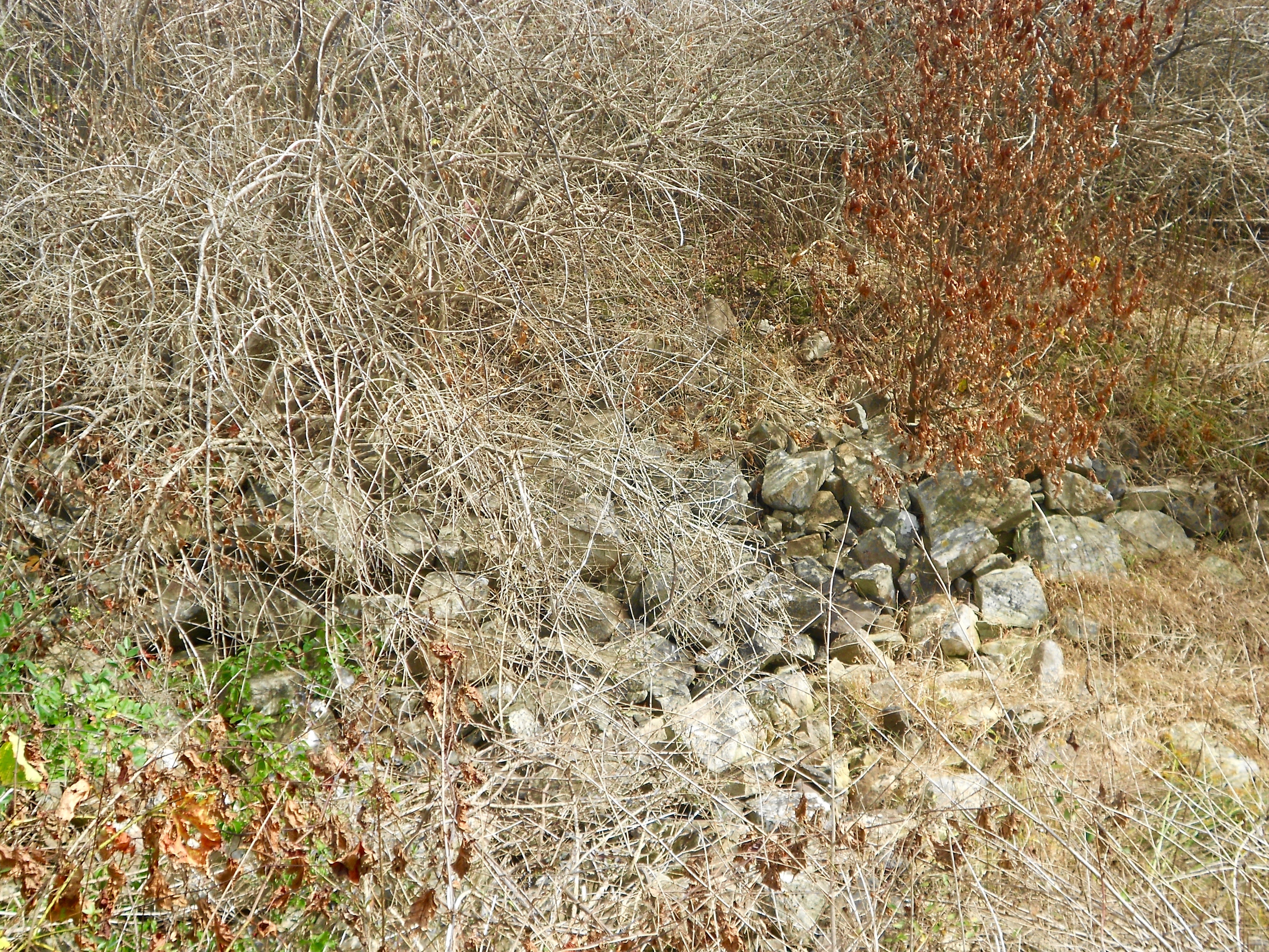 Monroe Furnace listed on the NRHP on November 13, 1989 at the junction of Pennsylvania Route 26 and Legislative Route 31076, 6 miles (9.7 km) northwest of McAlevys Fort in Barree Township, Huntingdon County, Pennsylvania. Only ruins are visible and then they are best viewed in the winter